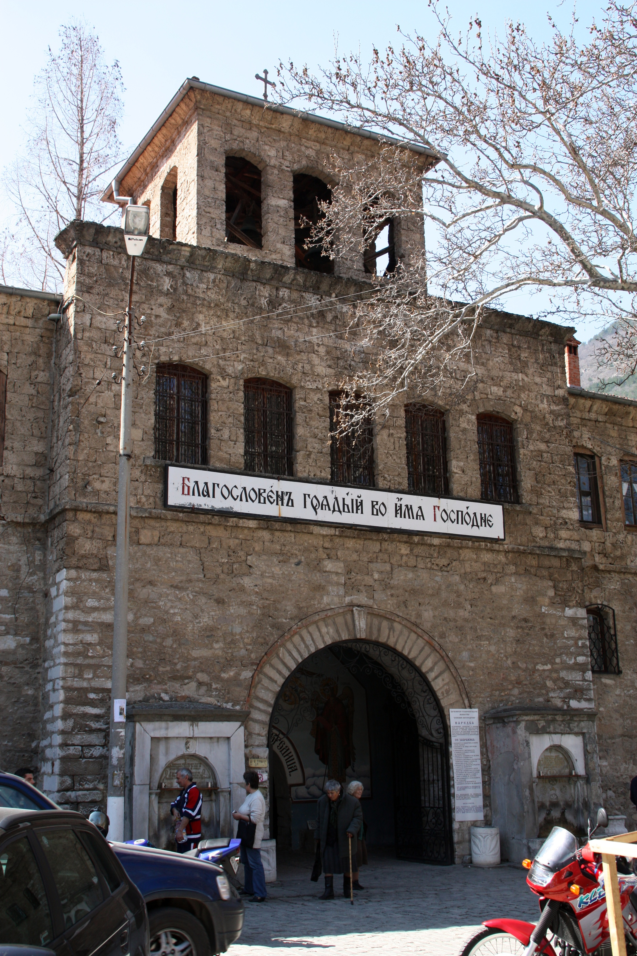 Bachkovo Monastery